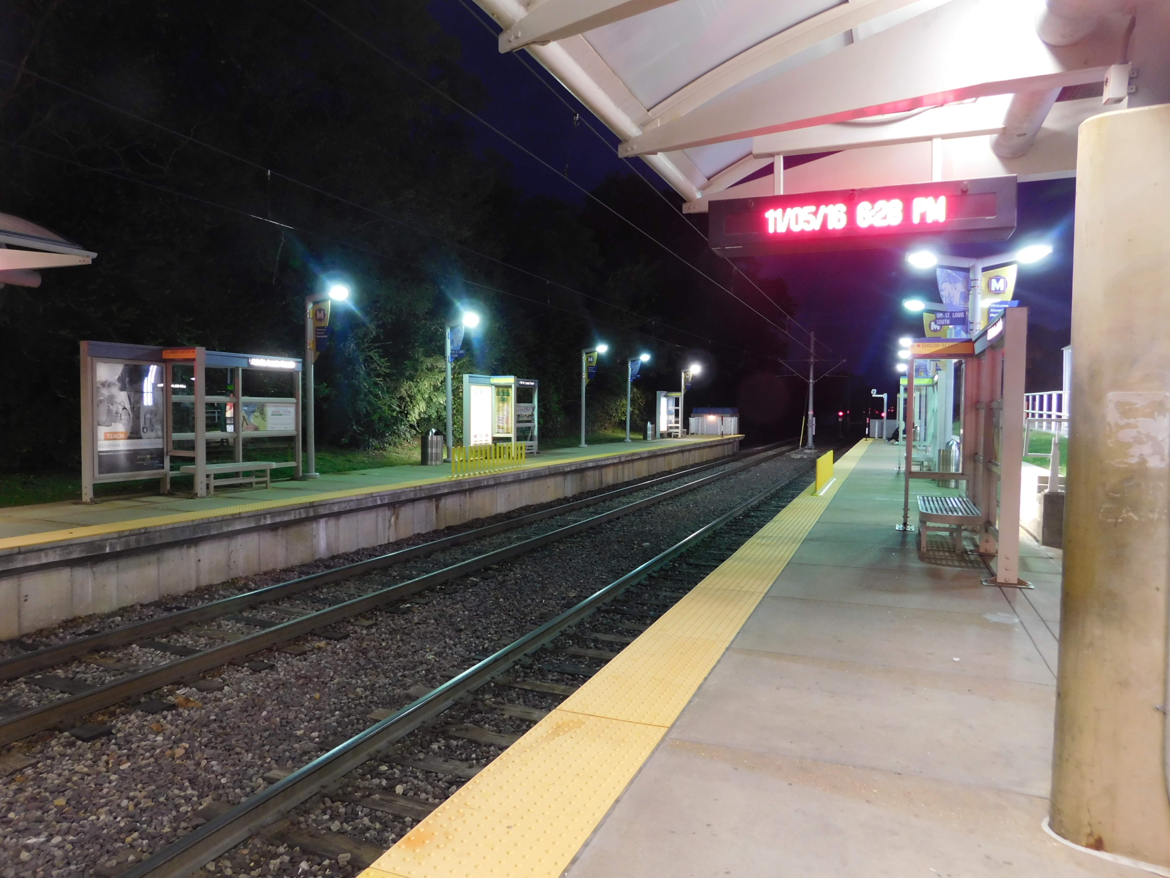 Wellston, Missouri